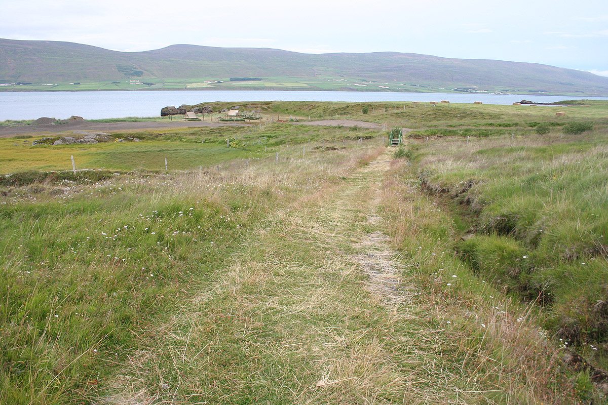 Gásir - Medieval Trading Place North Iceland